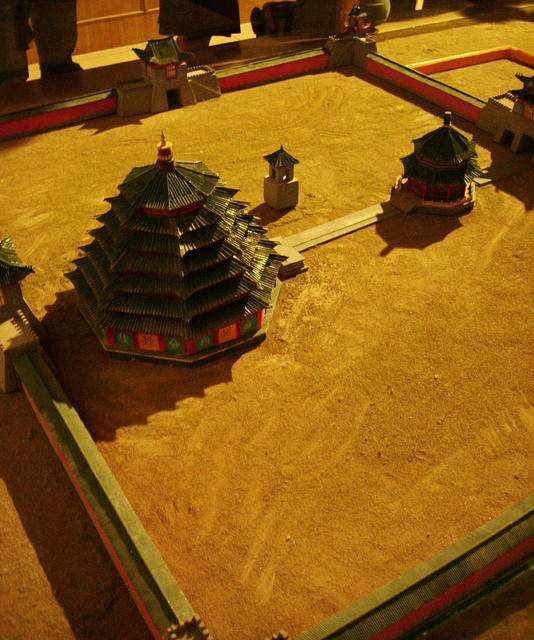 Model of the Imperial Tombs of Western Xia.